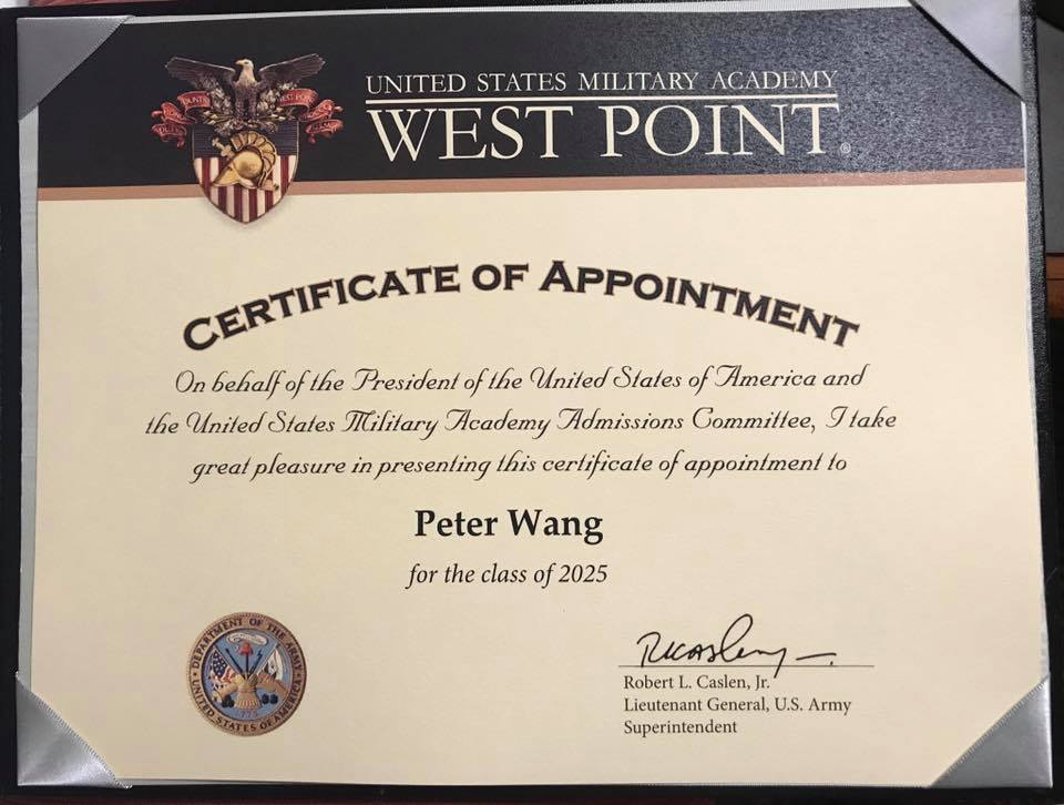 The U.S. Military Academy awarded Peter Wang posthumously with a certificate of appointment.